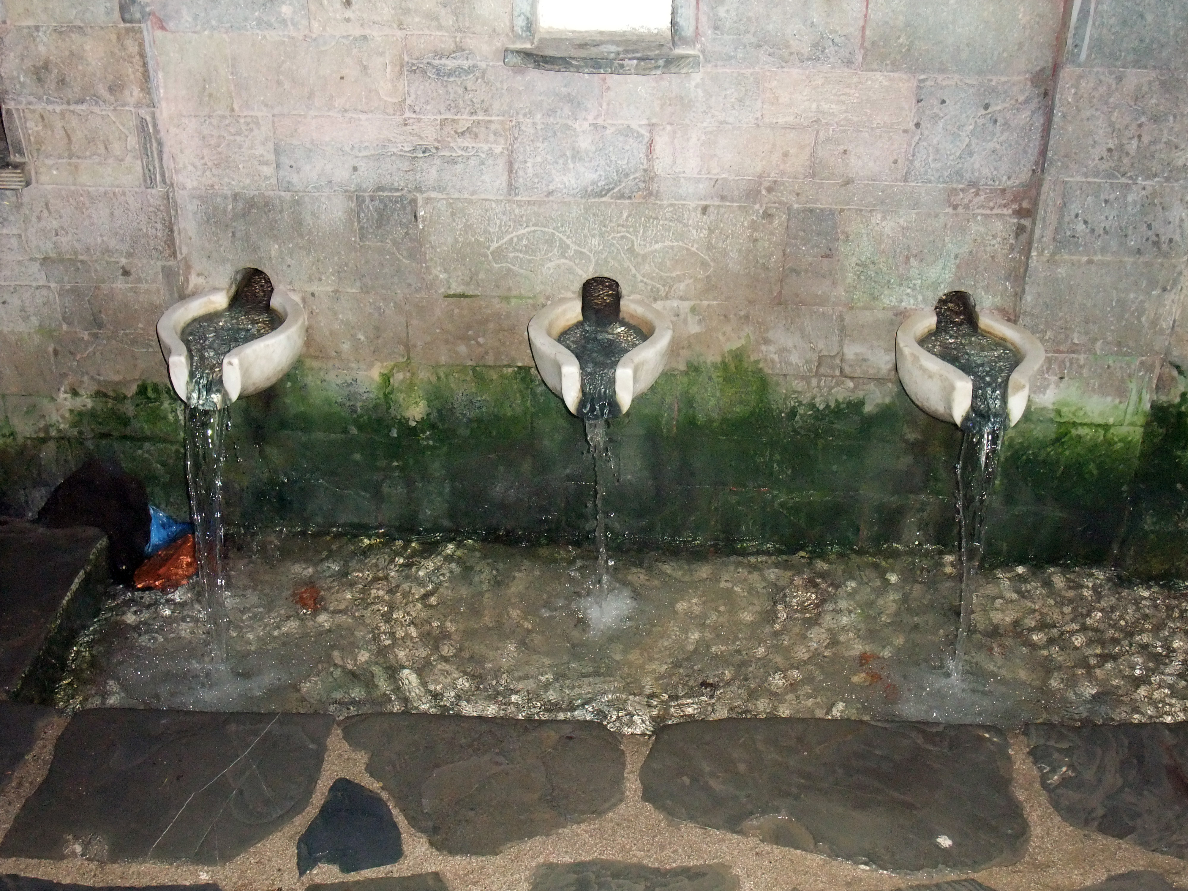 Spring of water with marble basins below the Panagía Vrisiani in Messochóri, Karpathos, Greek Dodecanese islands